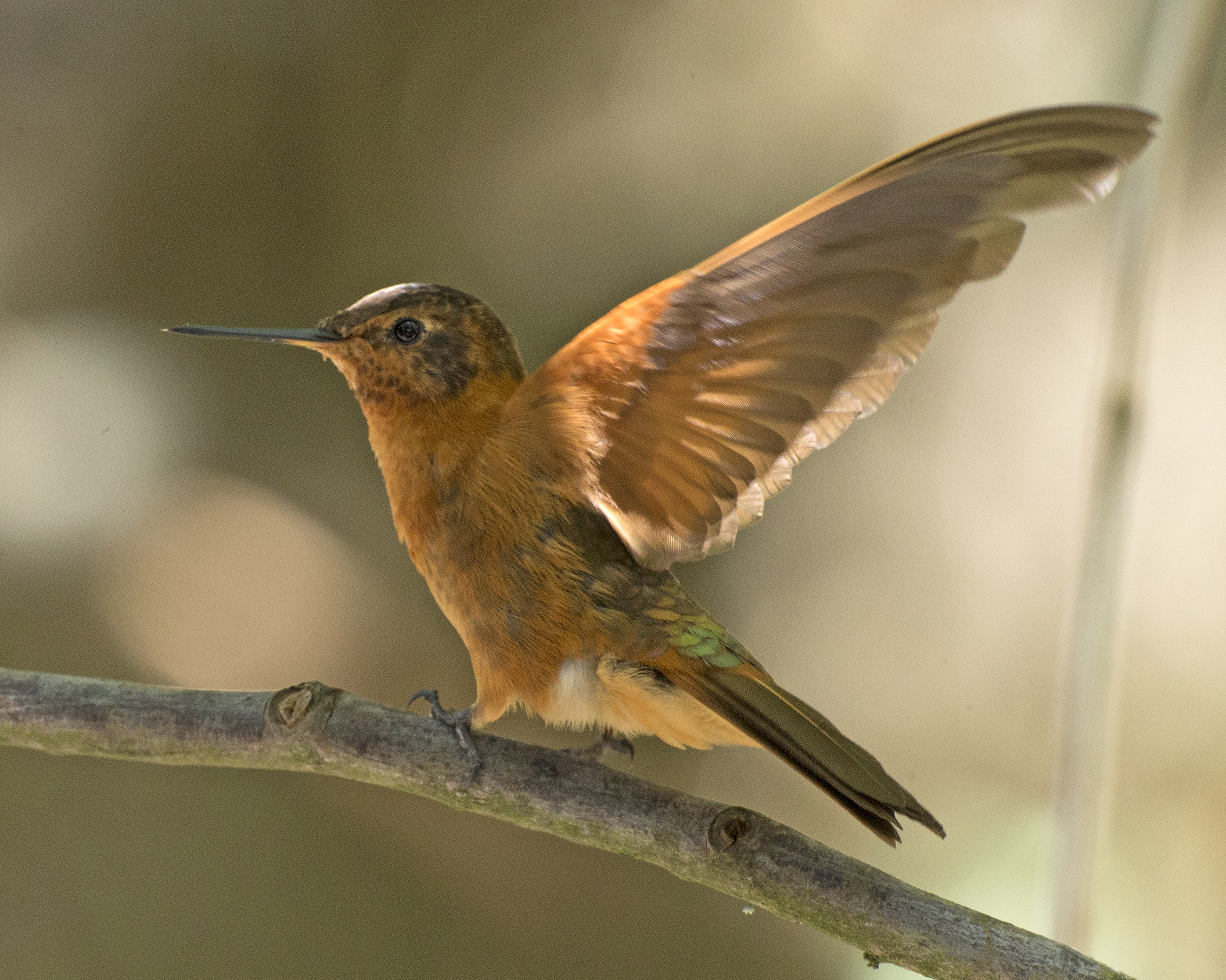 Shining Sunbeam - male Aglaeactis cupripennis Aglaeactis cupripennis cupripennis Quito, Ecuador 31st. July 2015 CF2P1527